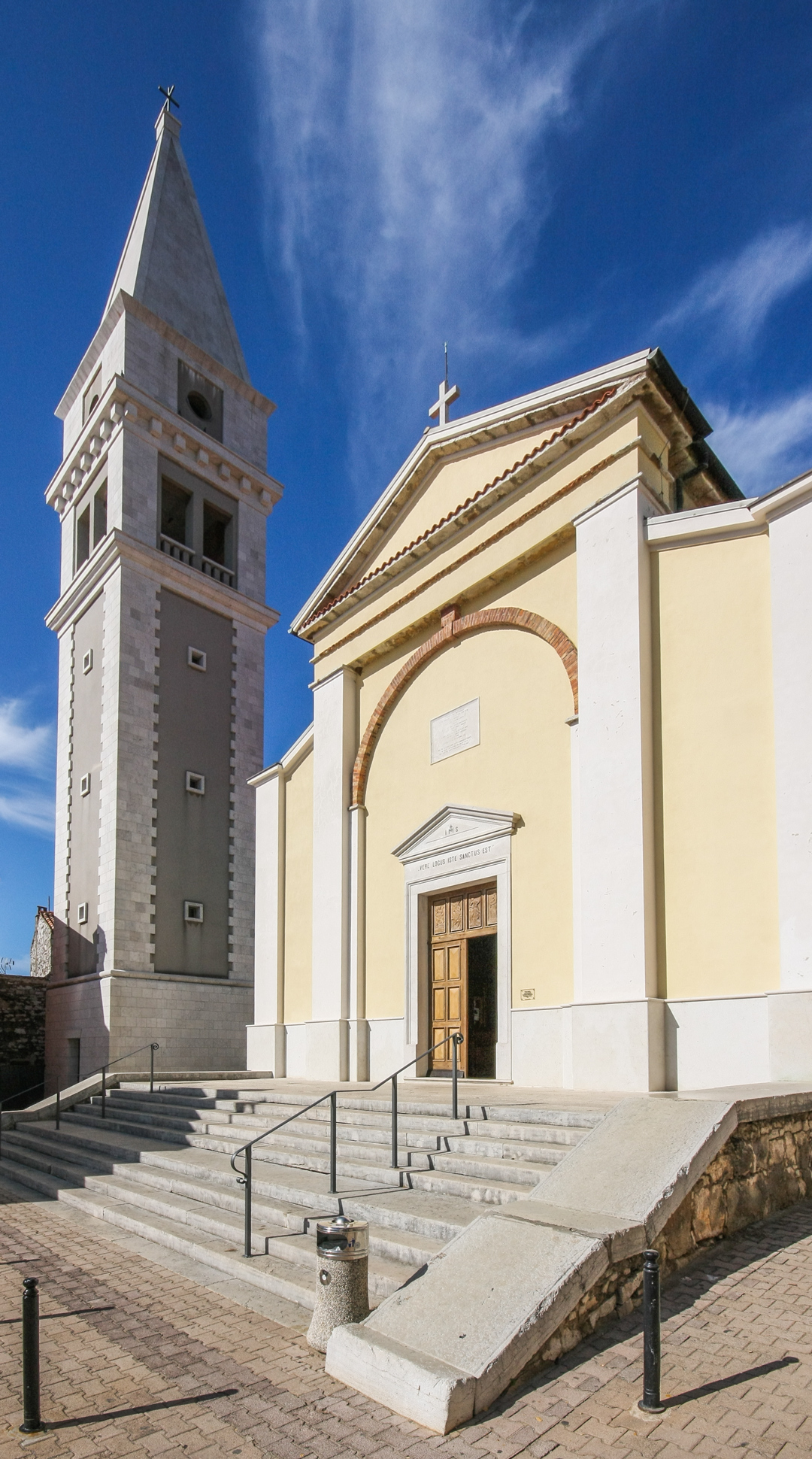 Church Sv. Martin in Vrsar, Croatia